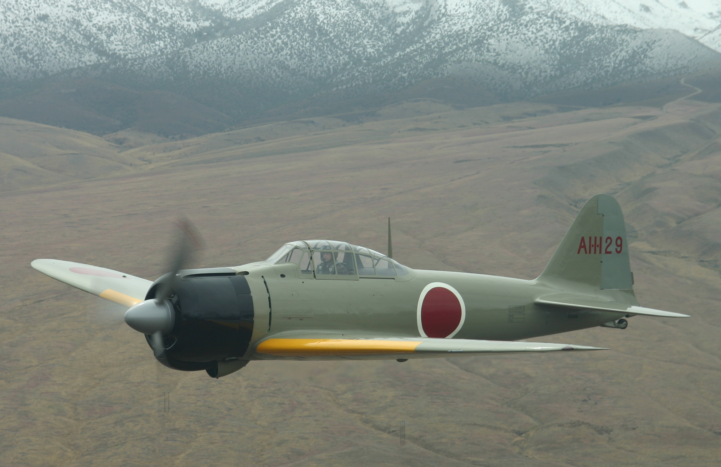 Photograph of Japanese Zero taken from the window of a DC-3 on a flight from the Reno Air Races to Wisconsin. The mountain in the background is Peavine Peak outside Reno, and near the Stead airfield where the Reno Air Races are held.